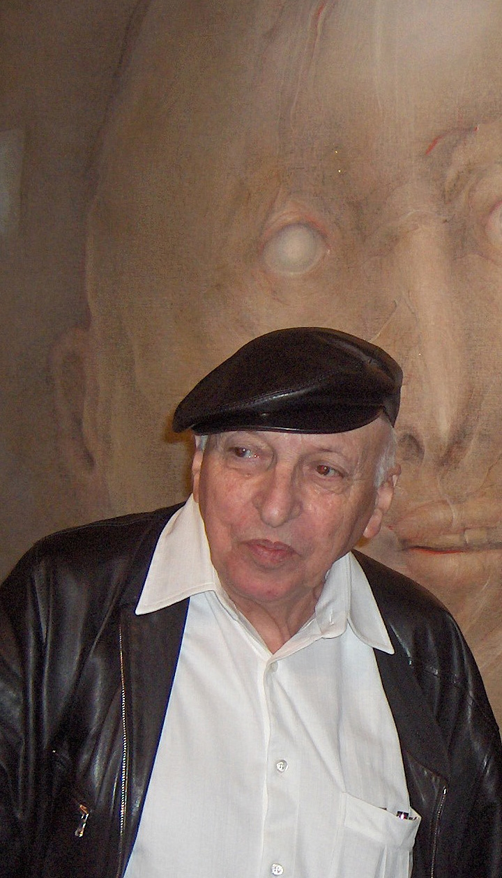 Portrait of Octave Landuyt, standing in front of one of his paintings - This portrait has been made with the authorisation of the artist